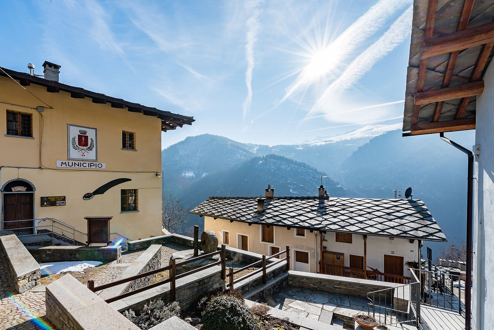 Ostana (Town Hall) - Province of Cuneo - Piedmont - Italy